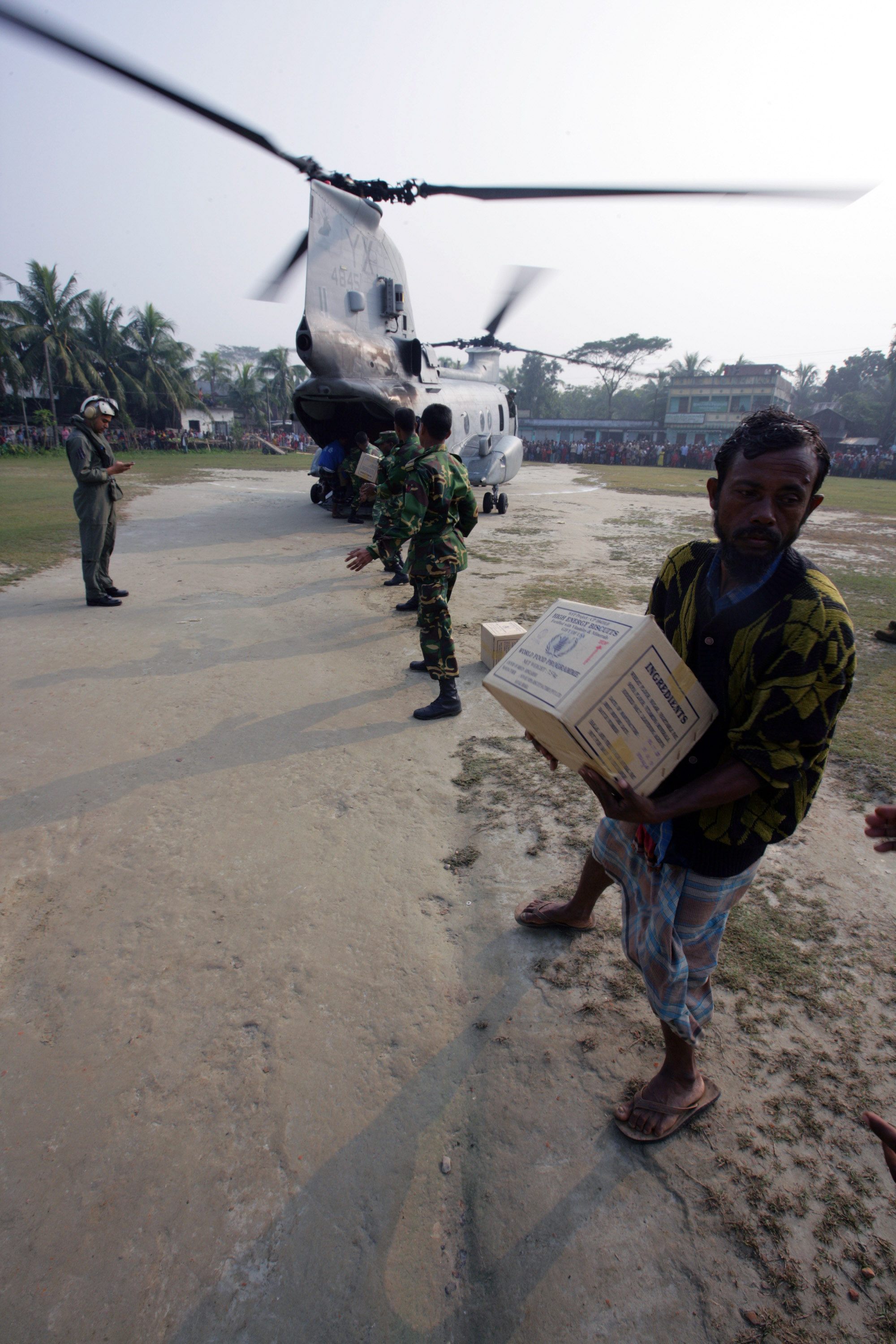 BAWFAL, Bangledesh (Dec. 4, 2007) Bangladeshi Citizens, offload food rations from a Marine CH-46E assigned to Marine Medium Helicopter Squadron (HMM) 166 (REIN), 11th Marine Expeditionary Unit (MEU) Special Operations Capable (SOC). The amphibious assault ship USS Tarawa (LHA 1) and the embarked 11th MEU (SOC) are conducting Humanitarian Assistance/Disaster Relief efforts in response to the government of Bangladesh's request for assistance after Tropical Cyclone Sidr struck their southern coast Nov. 15. The storm killed over 3,000 people and has left several hundred thousand homeless. The Department of Defense effort is part of a larger United States response coordinated by the U.S. Department of State and U.S. Agency for International Development. U.S. Marine Corps photo by Sgt. Bryson K. Jones (RELEASED)